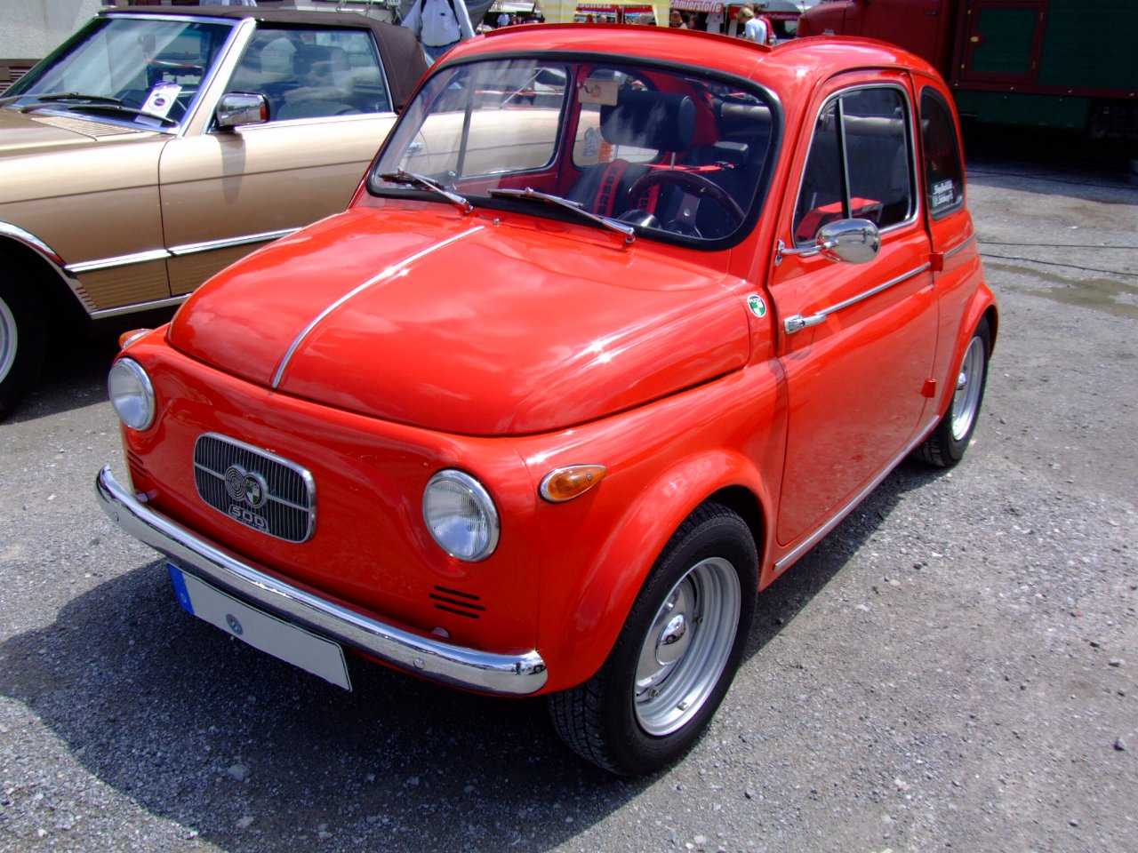 Summary Quelle: selbst fotografiert, 06/2006 Fotograf: Späth Chr.